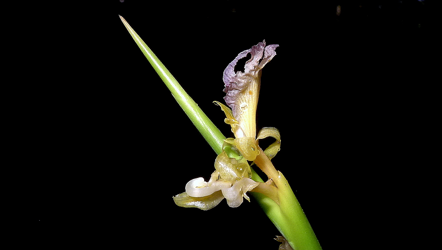 Ischnosiphon gracilis (Rudge) Koern.